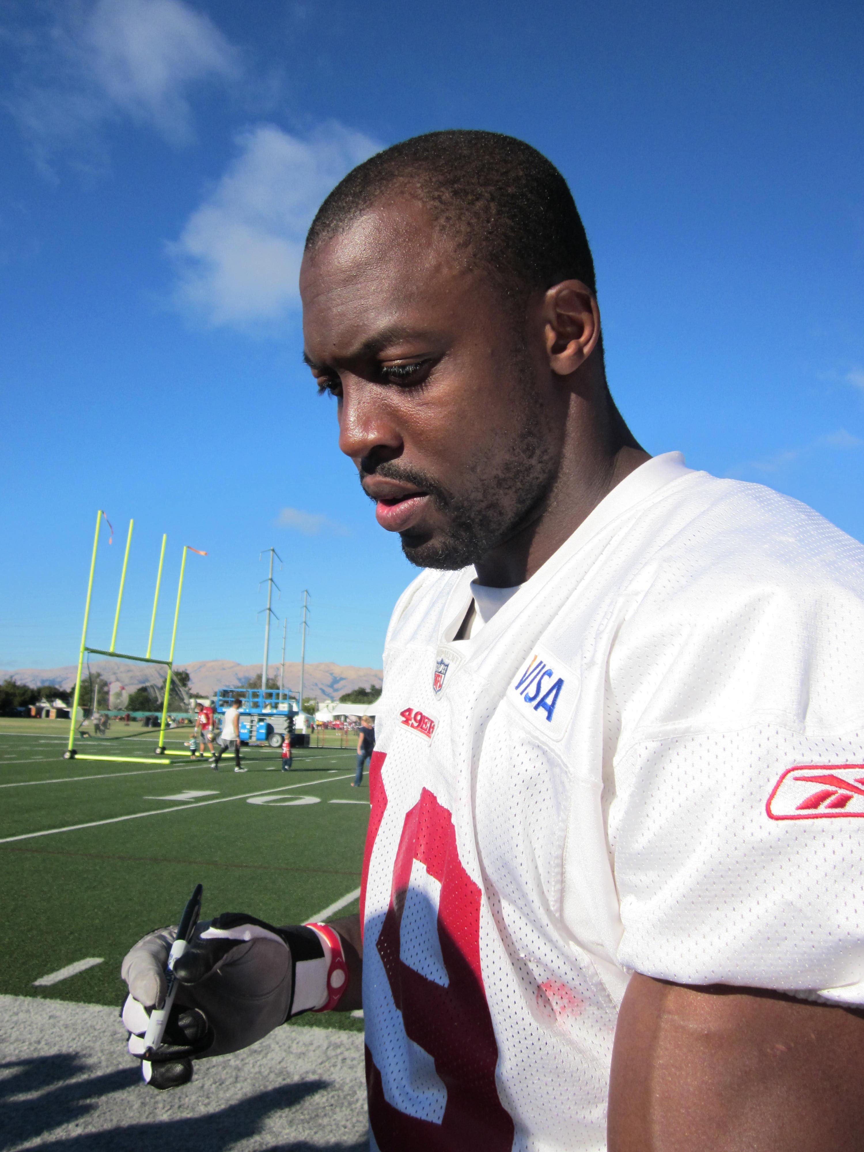 San Francisco 49ers linebacker Manny Lawson at training camp in Santa Clara, California.